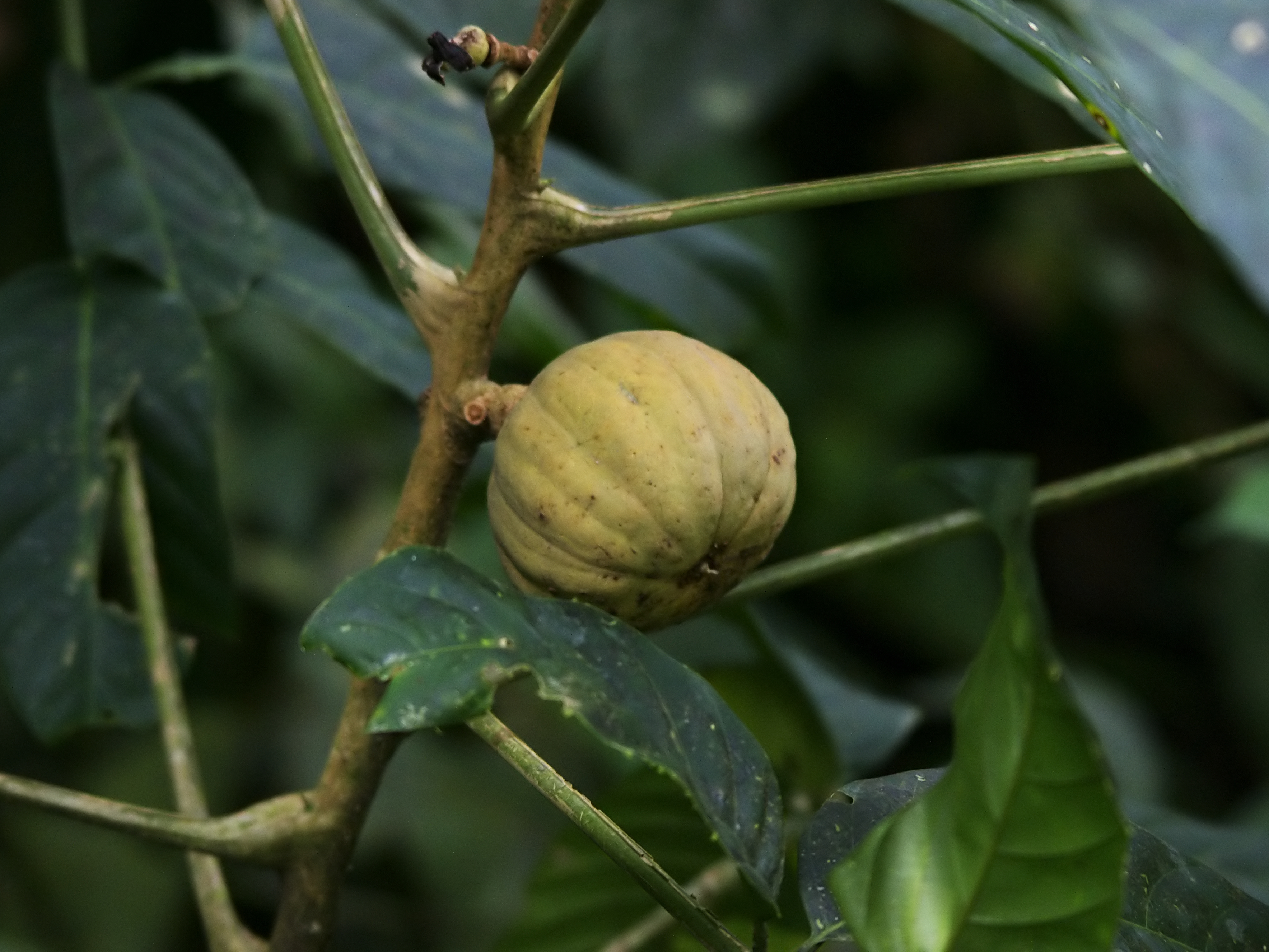 Sandbox Tree at Puentes Colgantes near Arenal Volcano, Costa Rica